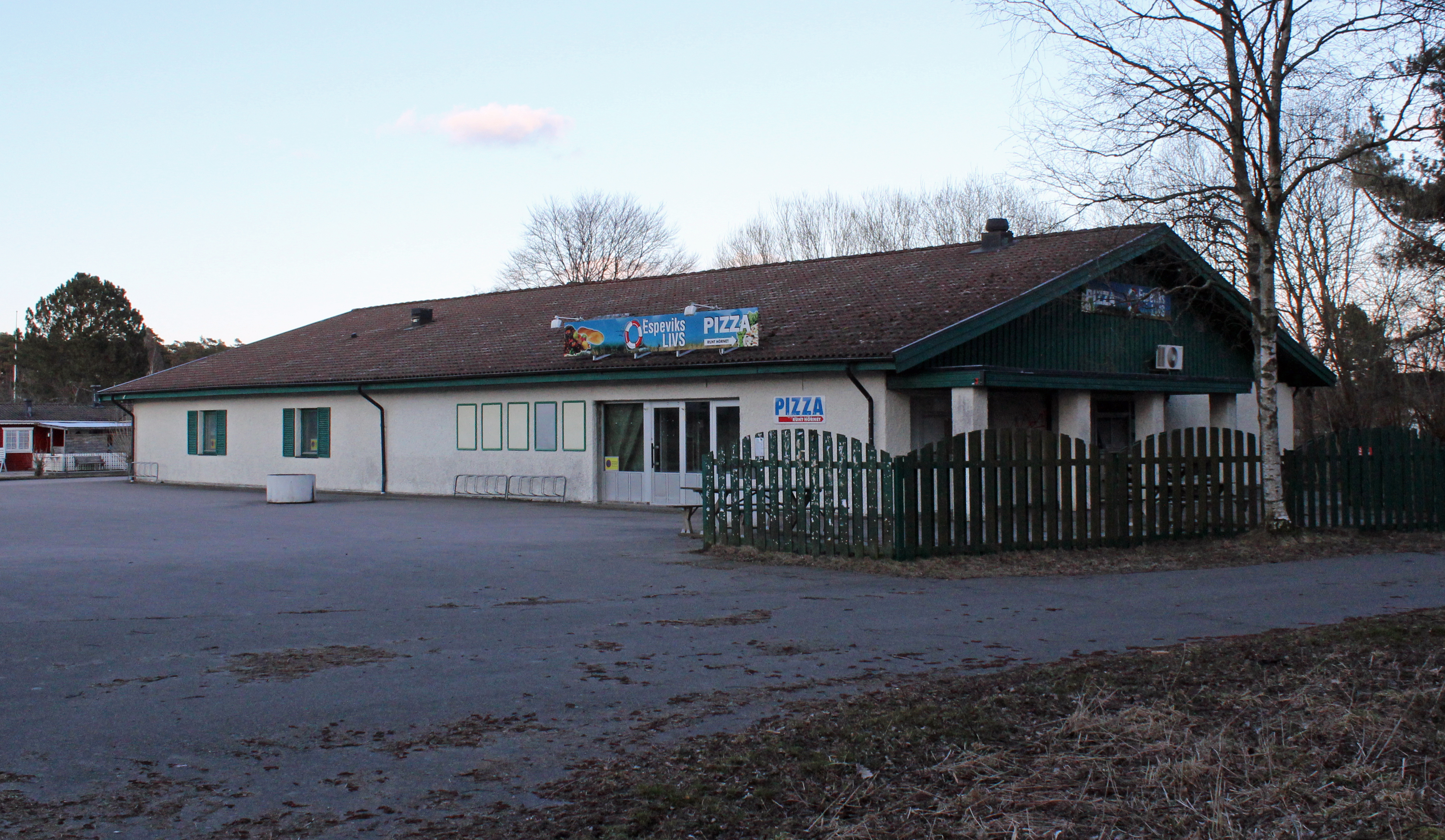 Espeviksaffären in Årnäshalvön, Halland, Sweden.